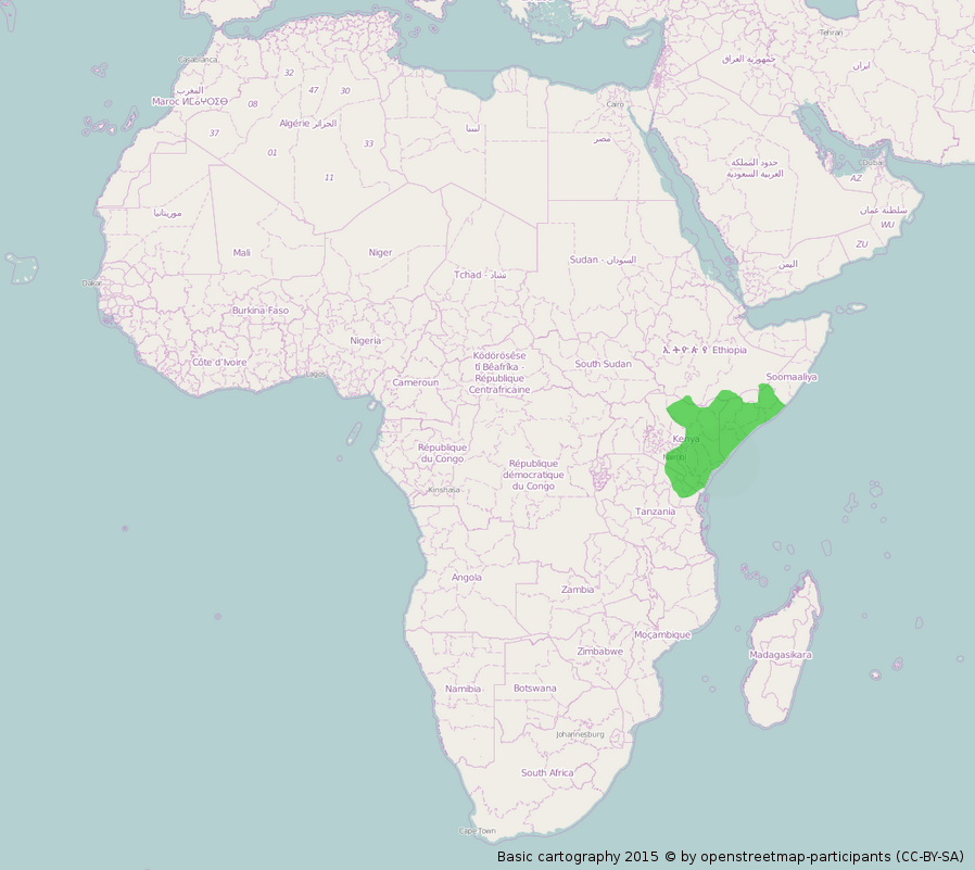 Distribution area of Fischer's starling (Lamprotornis fischeri)